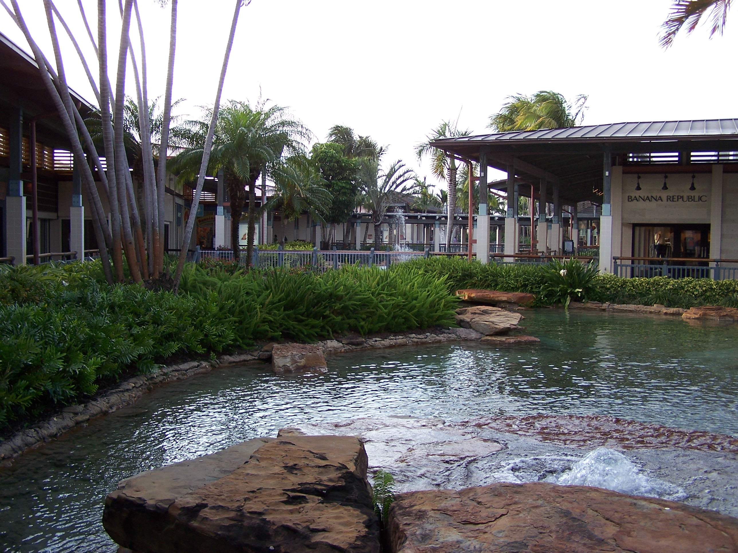 Shot of The Falls shopping center in Kendall Florida